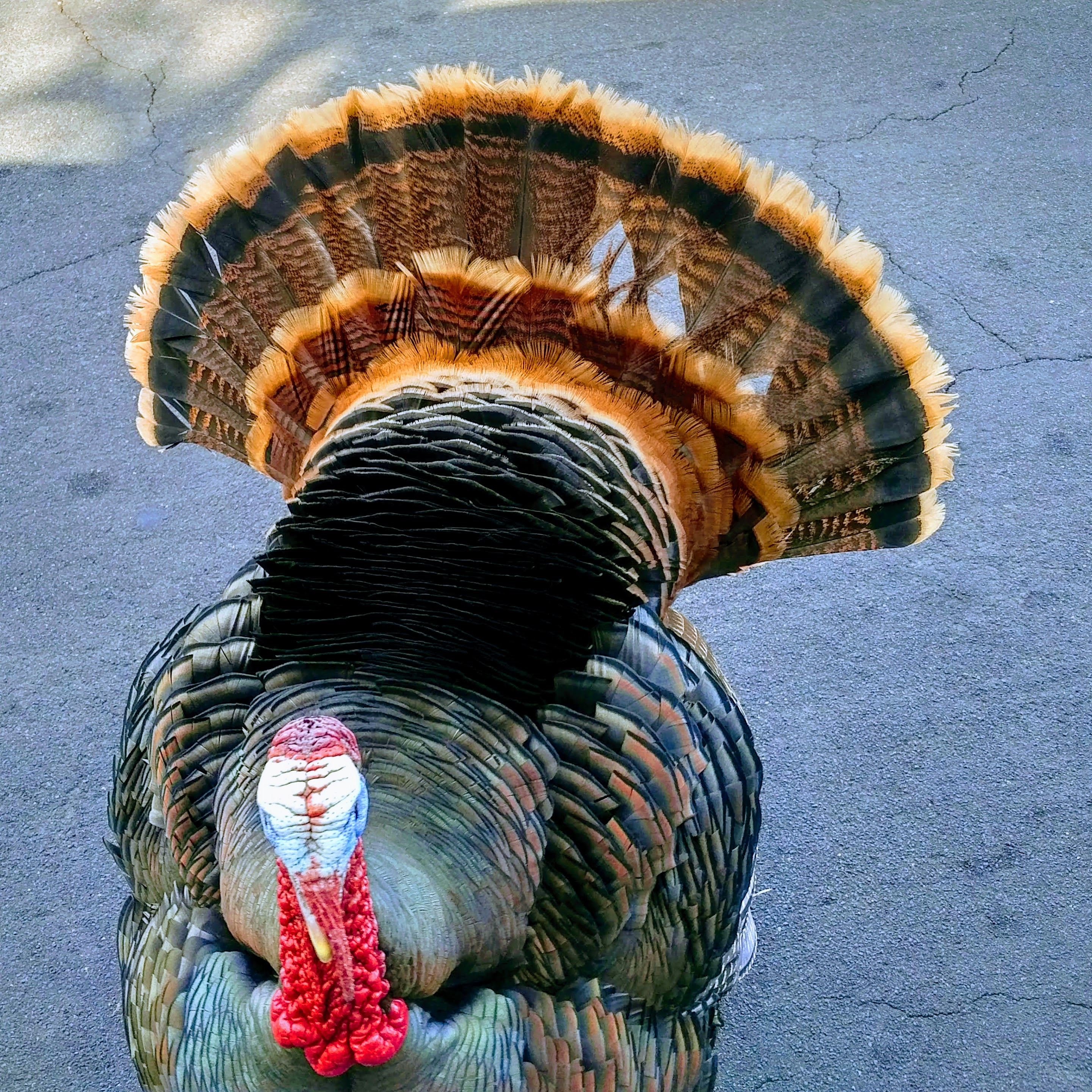 Wild Turkey in Concord California